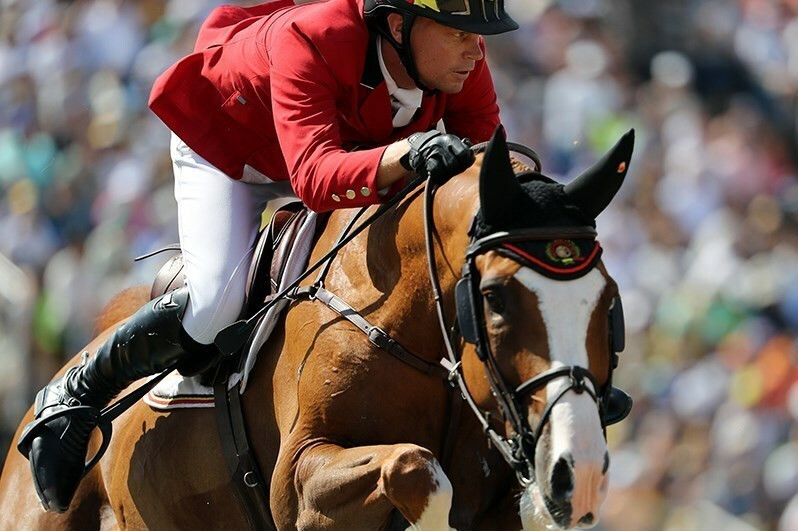 Show jumping at the 2016 Summer Olympics